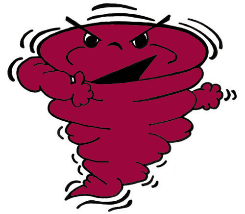 The Porter-Gaud "Cyclone Man"